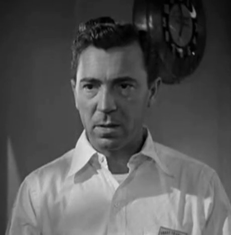 Tom D'Andrea in Tension - cropped screenshot